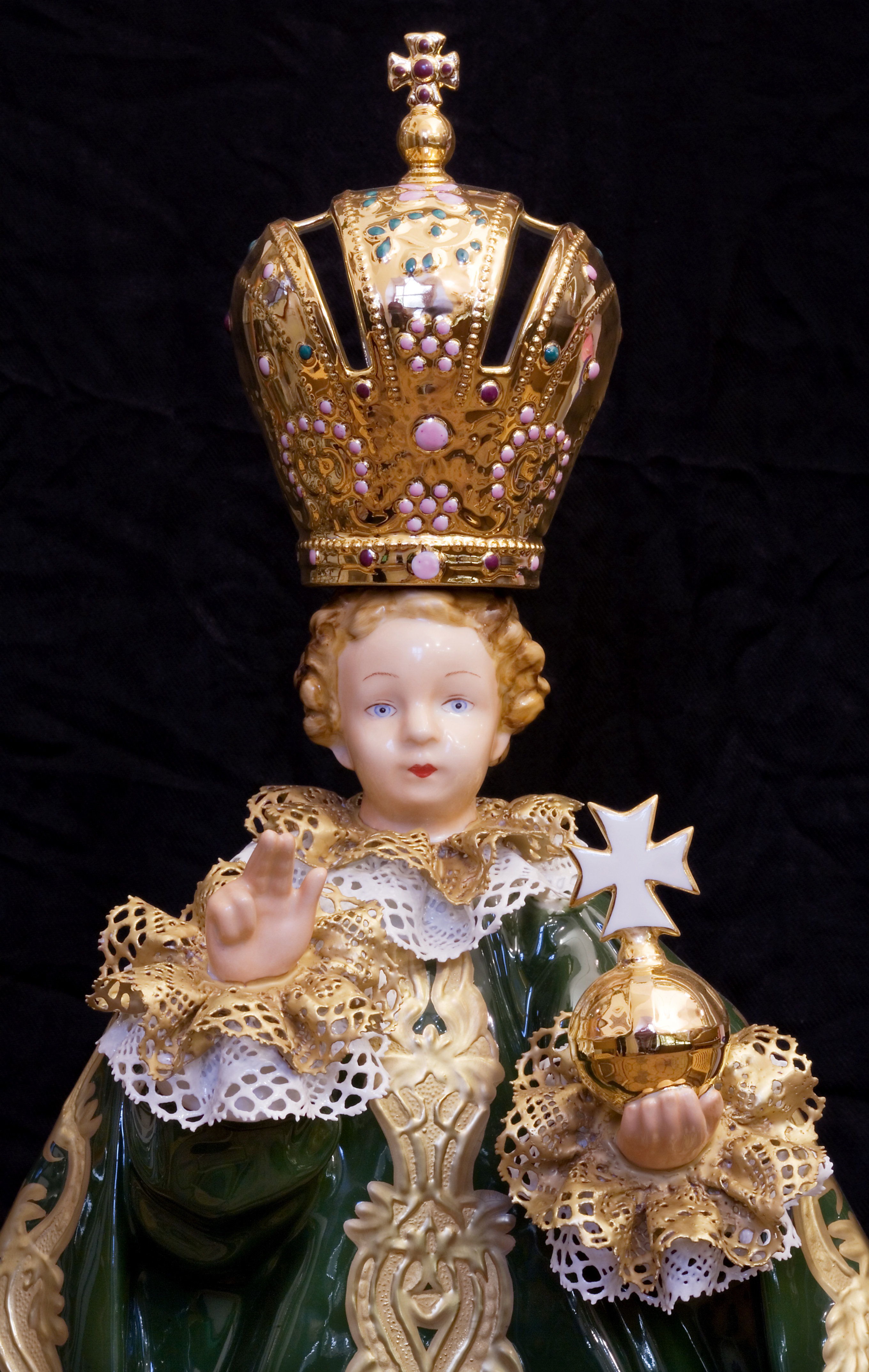 Infant jesus of prague- Das Prager Jesuskind- El niño jesus de Praga, Prague